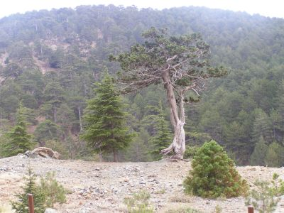 The Troodos Mountains, Cyprus